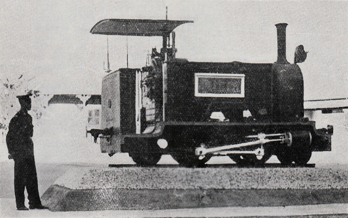 Walvisbaai 2-4-2T locomotive, used on the Walvisbaai 2ft 6in gauge line from 1899 to 1906, when the line was closed to traffic.